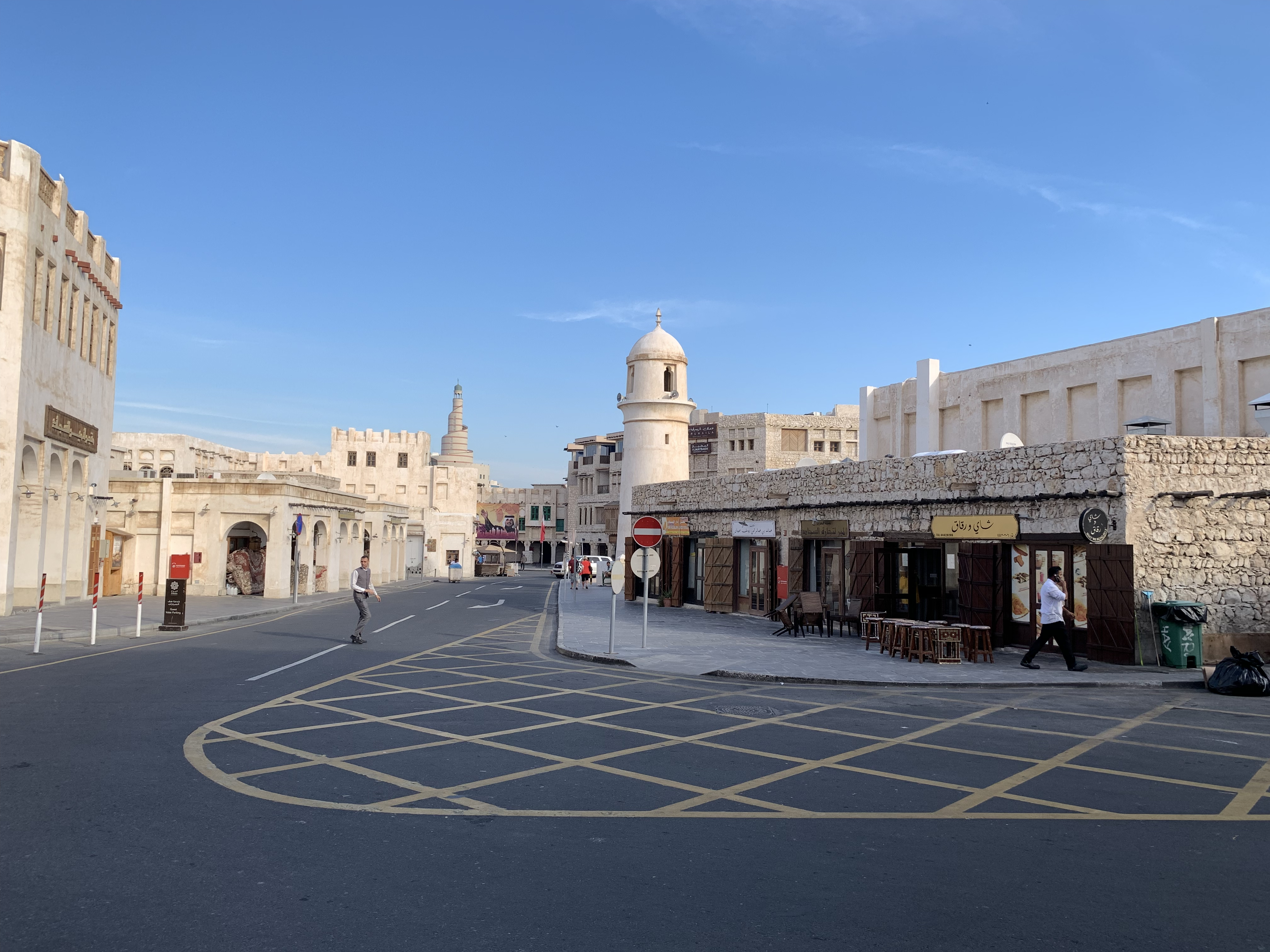 Street near cafes in Souq Waqif, Doha, Qatar. Sheikh Abdulla Bin Zaid Al Mahmoud Islamic Cultural Center can be seen in the far distance.